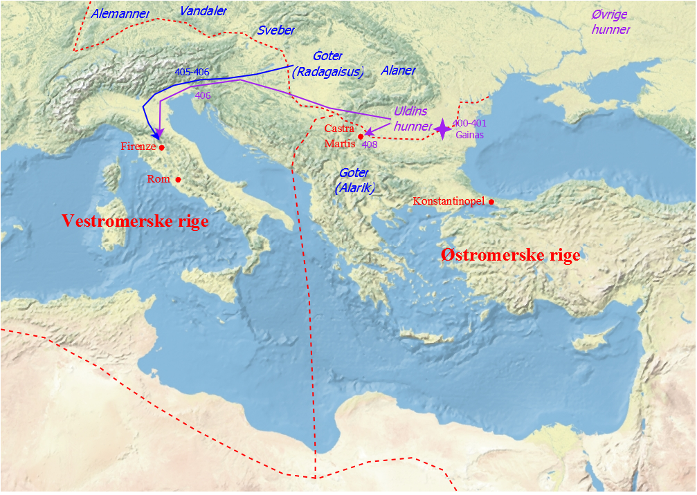 Map showing known references to Uldin the Hun (400-408). Danish version.